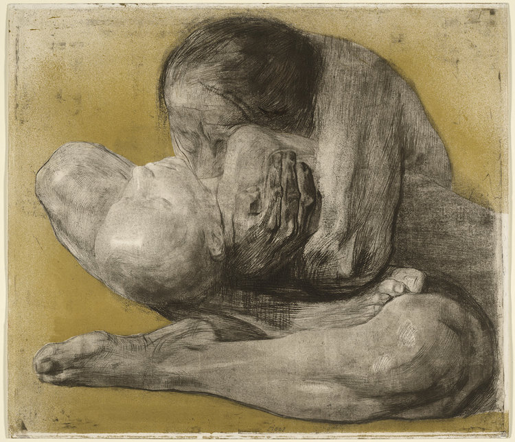 Käthe Kollwitz (1867-1945): "Woman with a dead child", 1903, line etching, drypoint, emery and vernis mou with printing of handmade paper and Ziegler'schem transfer paper, with gold-colored, injected clay stone. The depicted child is the youngest son Peter Kollwitz (1896-1914) at the age of 7 years.